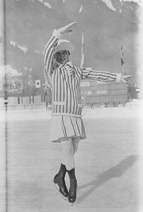 Sonja Henie on Winter Olympic games 1924